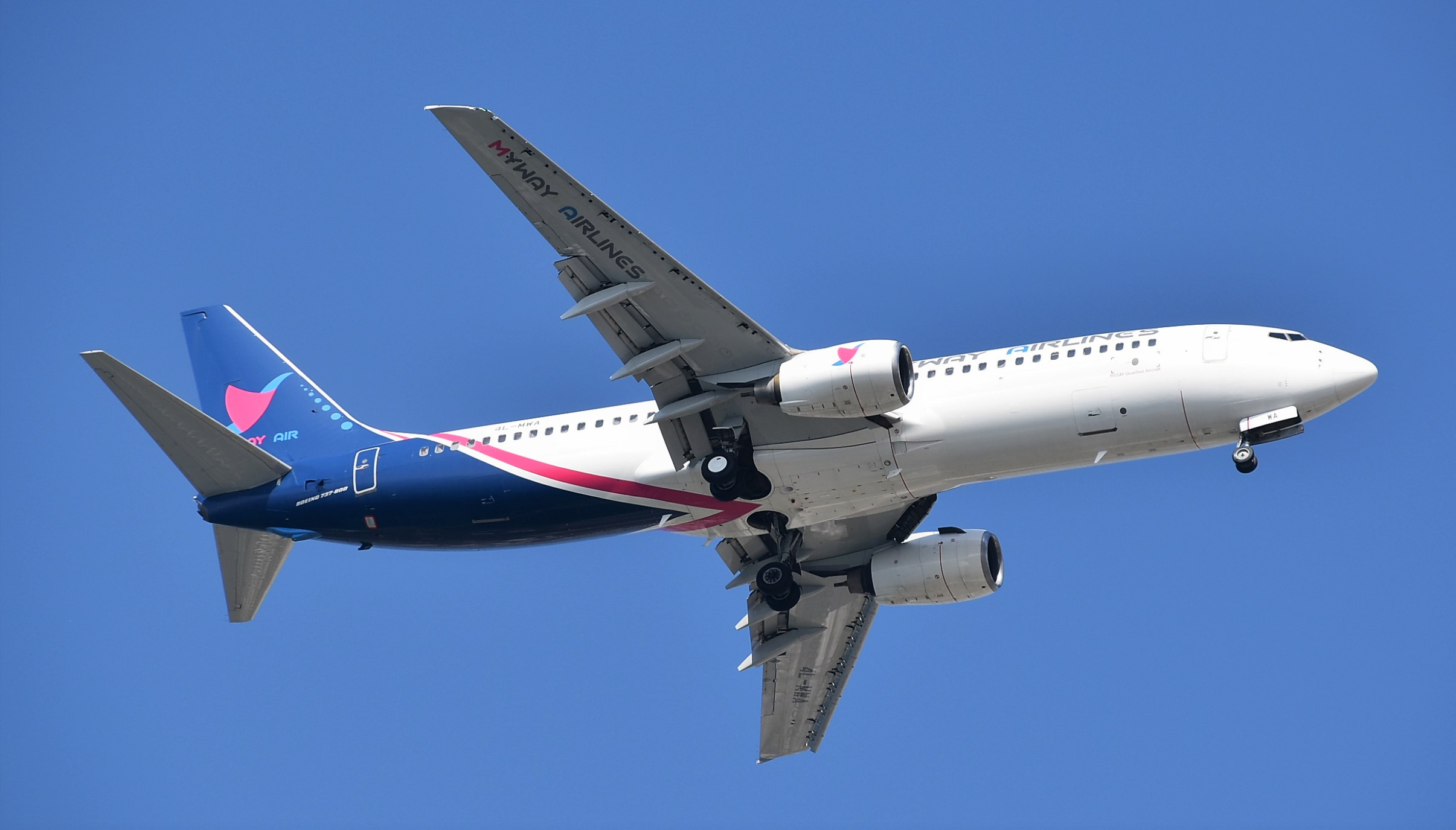 Boeing 737/8 of My Way Airlines on approach to rwy.36L at Antalya-AYT, Turkey, 10/06/18.